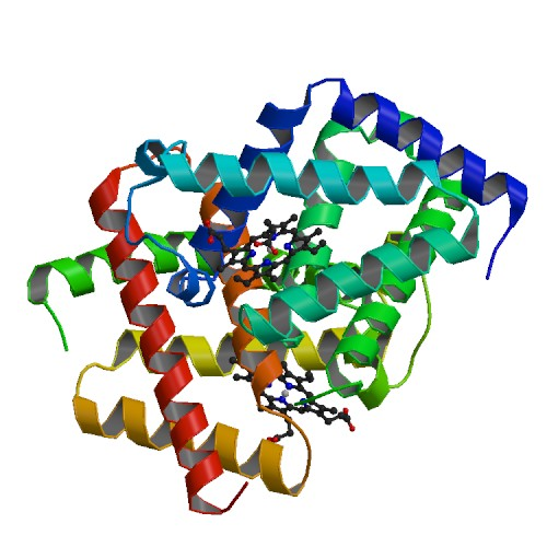 3d ribbon model of cytoglobin after PDB 1UMO